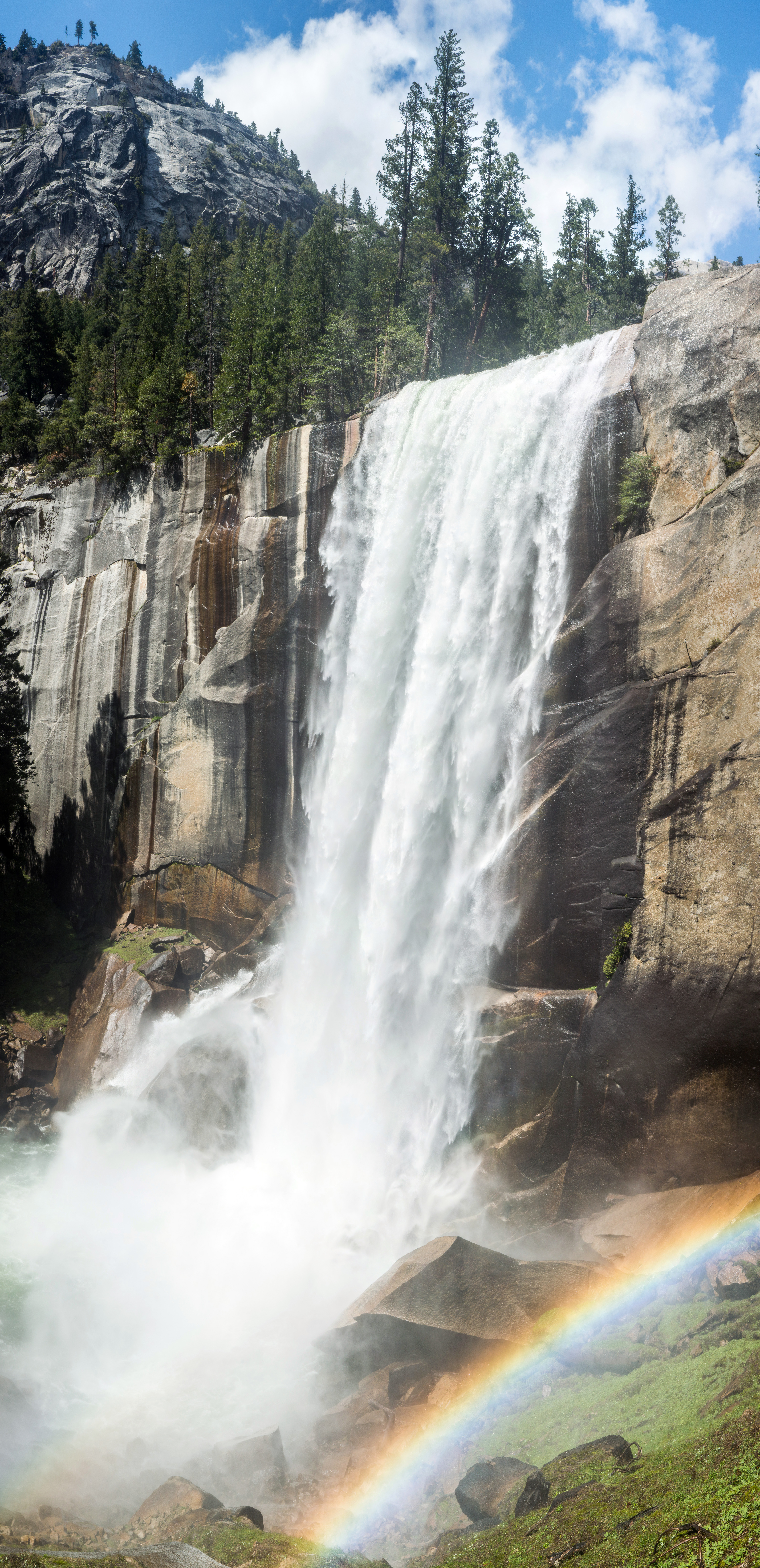 Vernal Fall as viewed from the Mist Trail in Yosemite National Park.